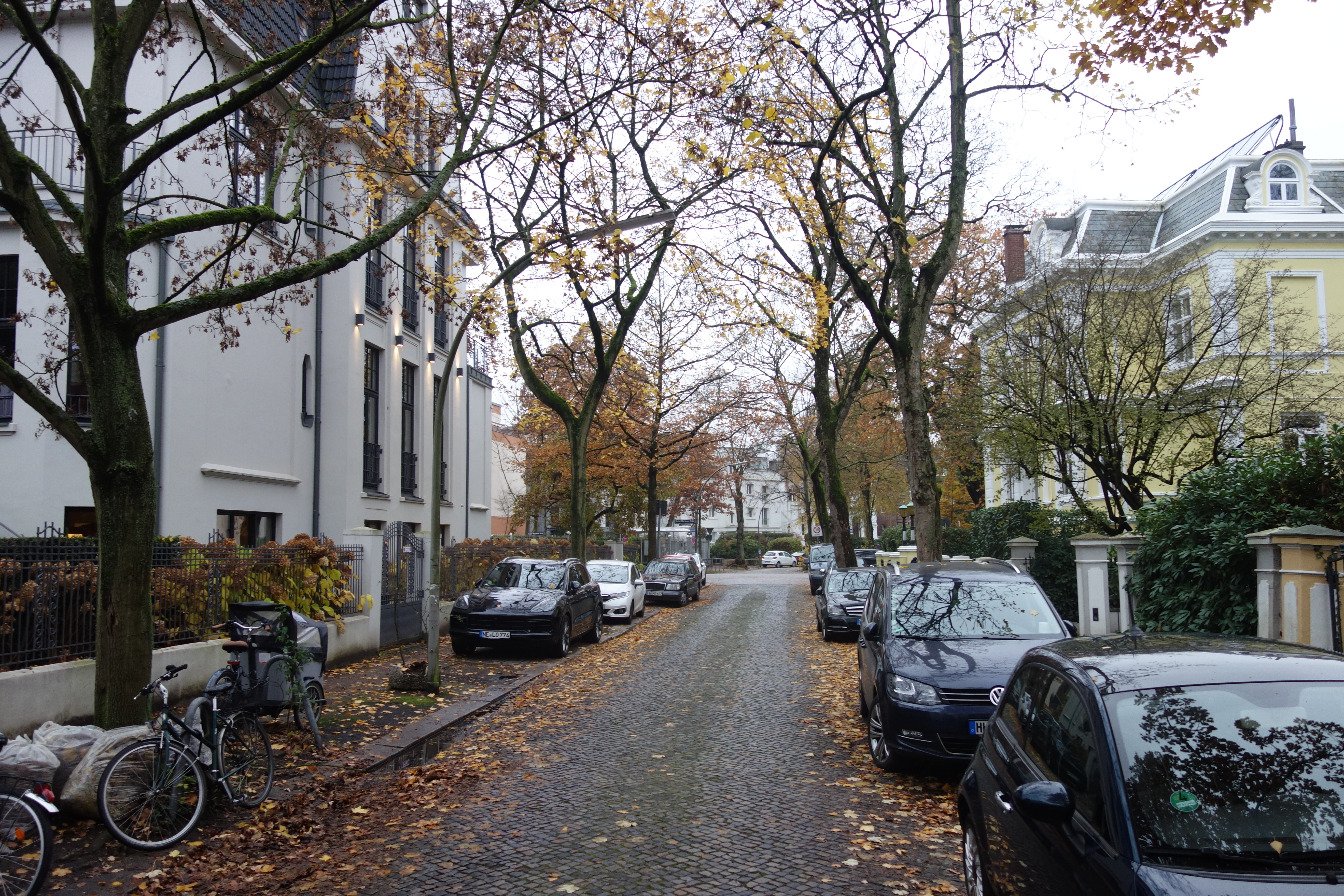 Gustav-Freytag Straße in Hamburg